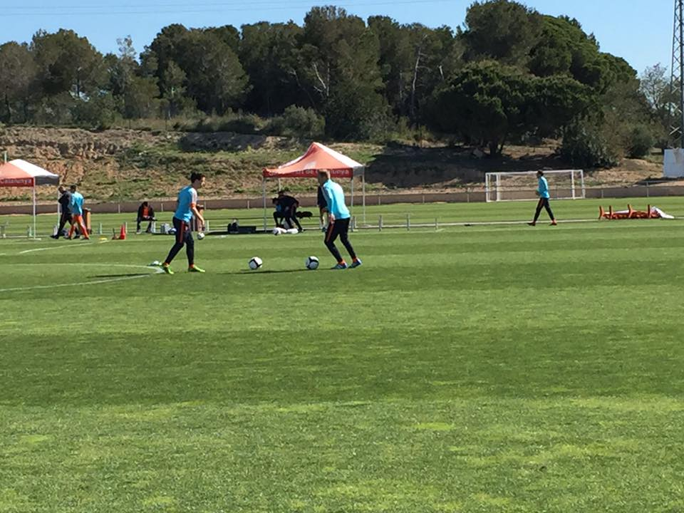 Photo taken at IFCPF Pre Paralympic Tournament Salou 2016 using personal iPhone.